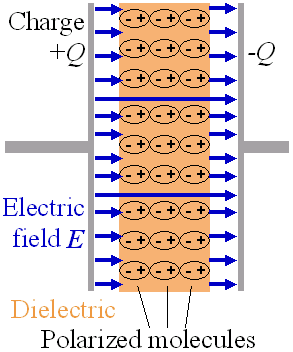 I created this image using Micrografx Designer and Picture Publisher software. I still have an editable source file, so if you think any changes need to be made, drop me a line.